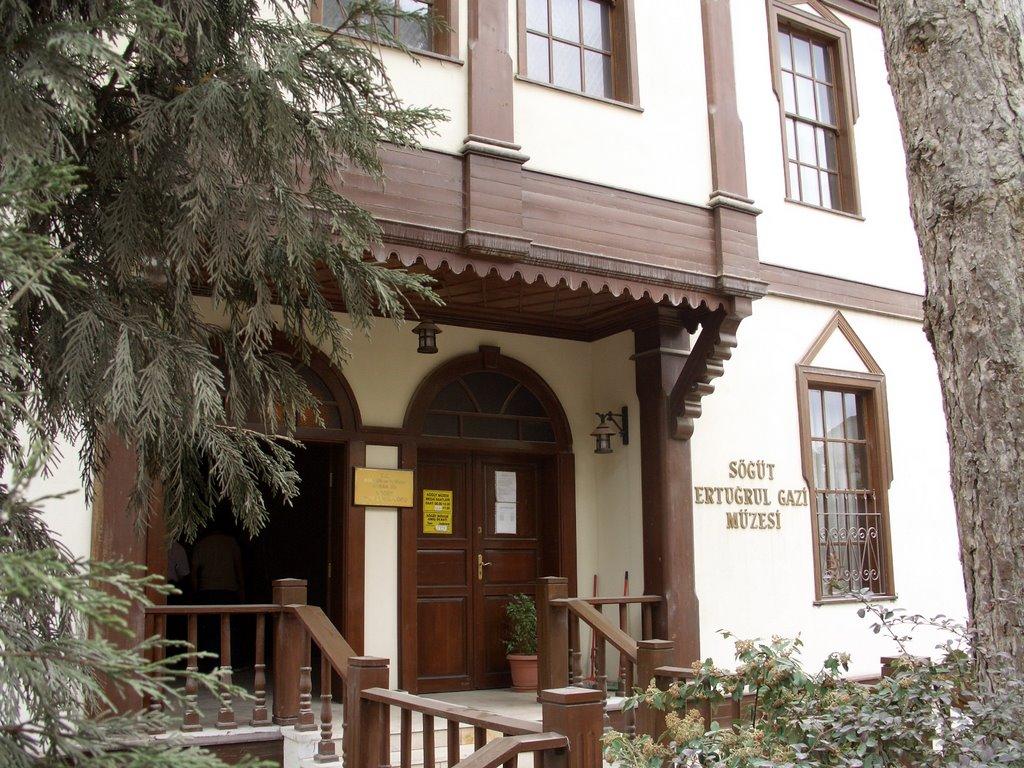 Söğüt Ertuğrul Gazi Museum.